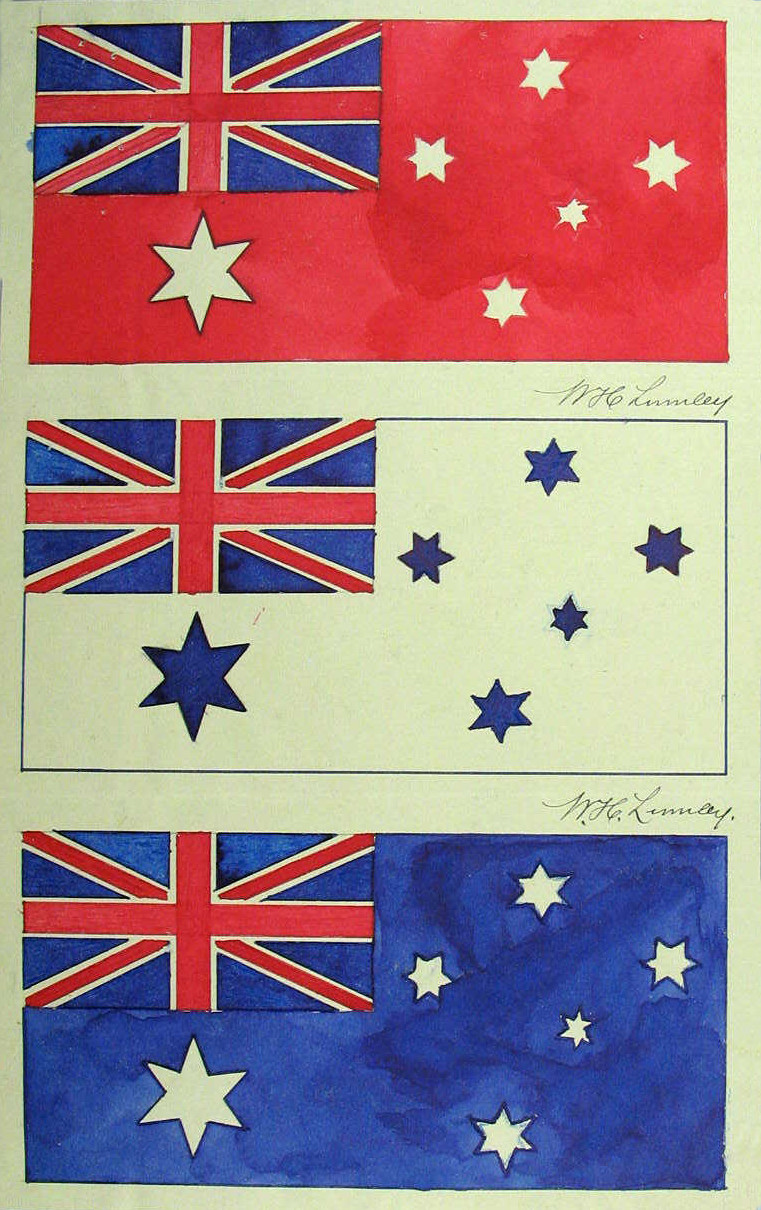 "Design of the Federal Flag of the Commonwealth of Australia" [original description] made for the 1901 Federal Flag Design Competition